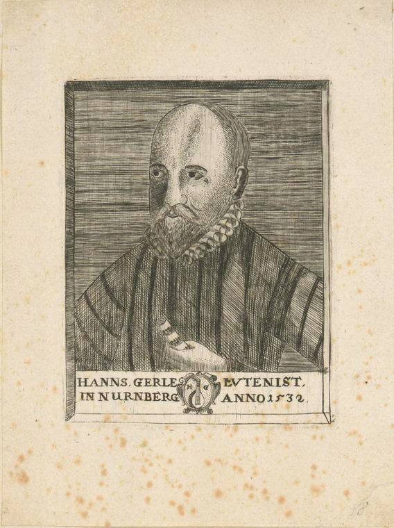 Portrait of Hans Gerle (~1500 - 1570), Lutinist